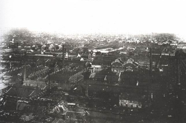 Photo of the Hanyang Arsenal in Hubei, where a large part of the NRA's locally-made weapons were produced.